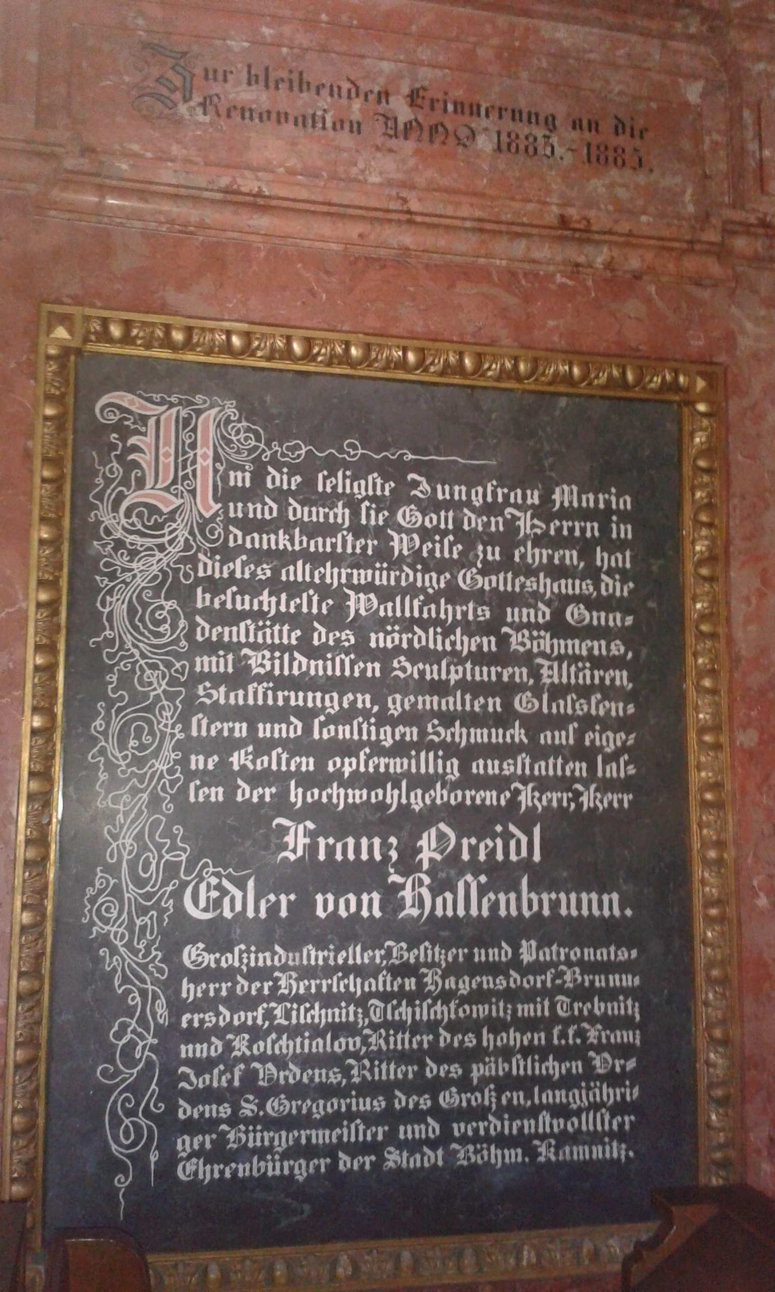 This stone includes german-written memory of renovation.